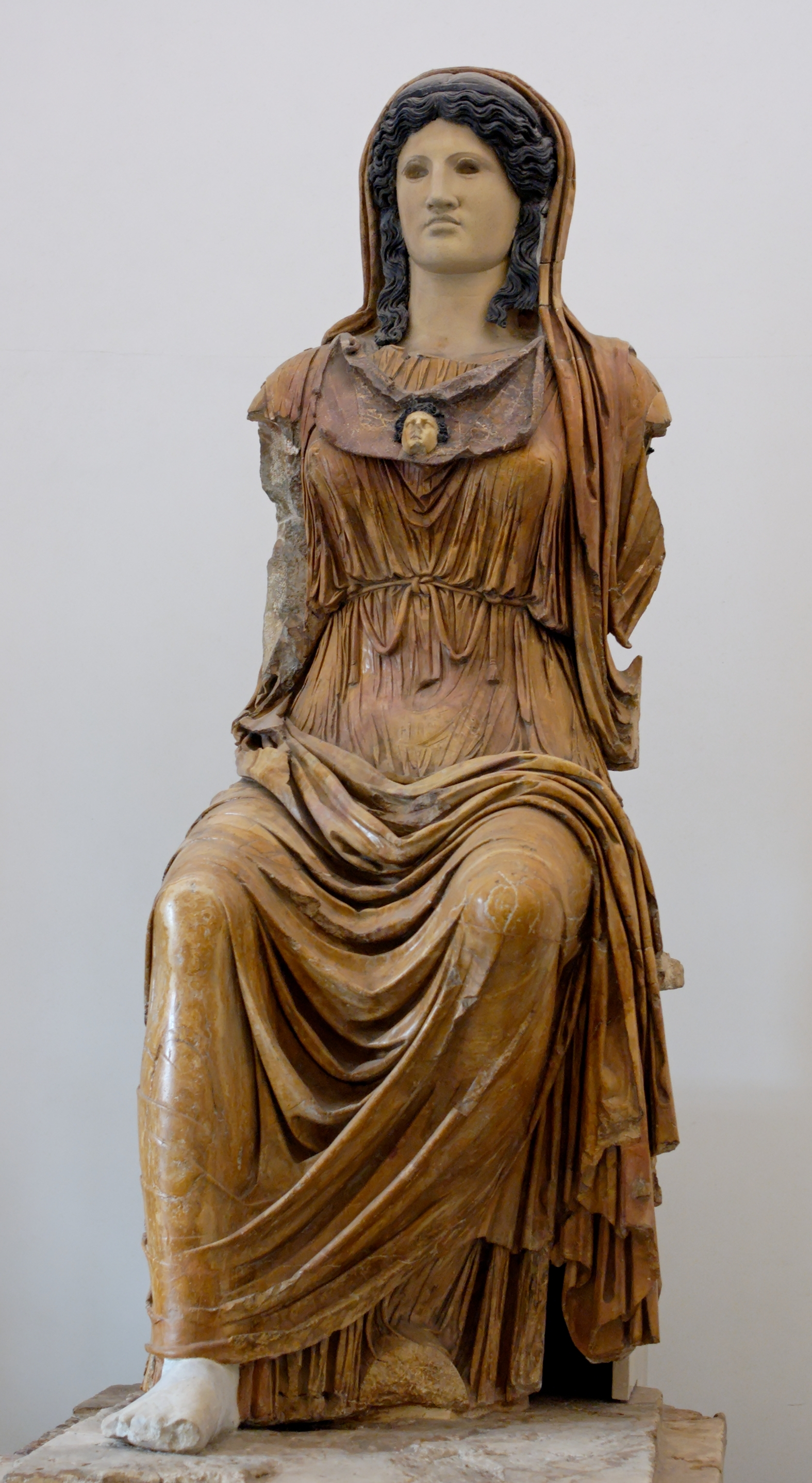 Cult statue of Athena with the face of the type of Carpegna Athena. Pink alabaster (draping, aegis), basalt (hair, gorgoneion), Luna marble (gorgoneion, right foot) and plaster (face), late 1st century BC–early 1st century CE. From the Piazza dell' Emporio (Rome), 1923.